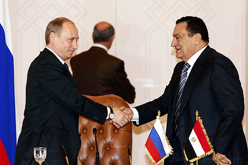 CAIRO. With Egyptian President Hosni Mubarak.